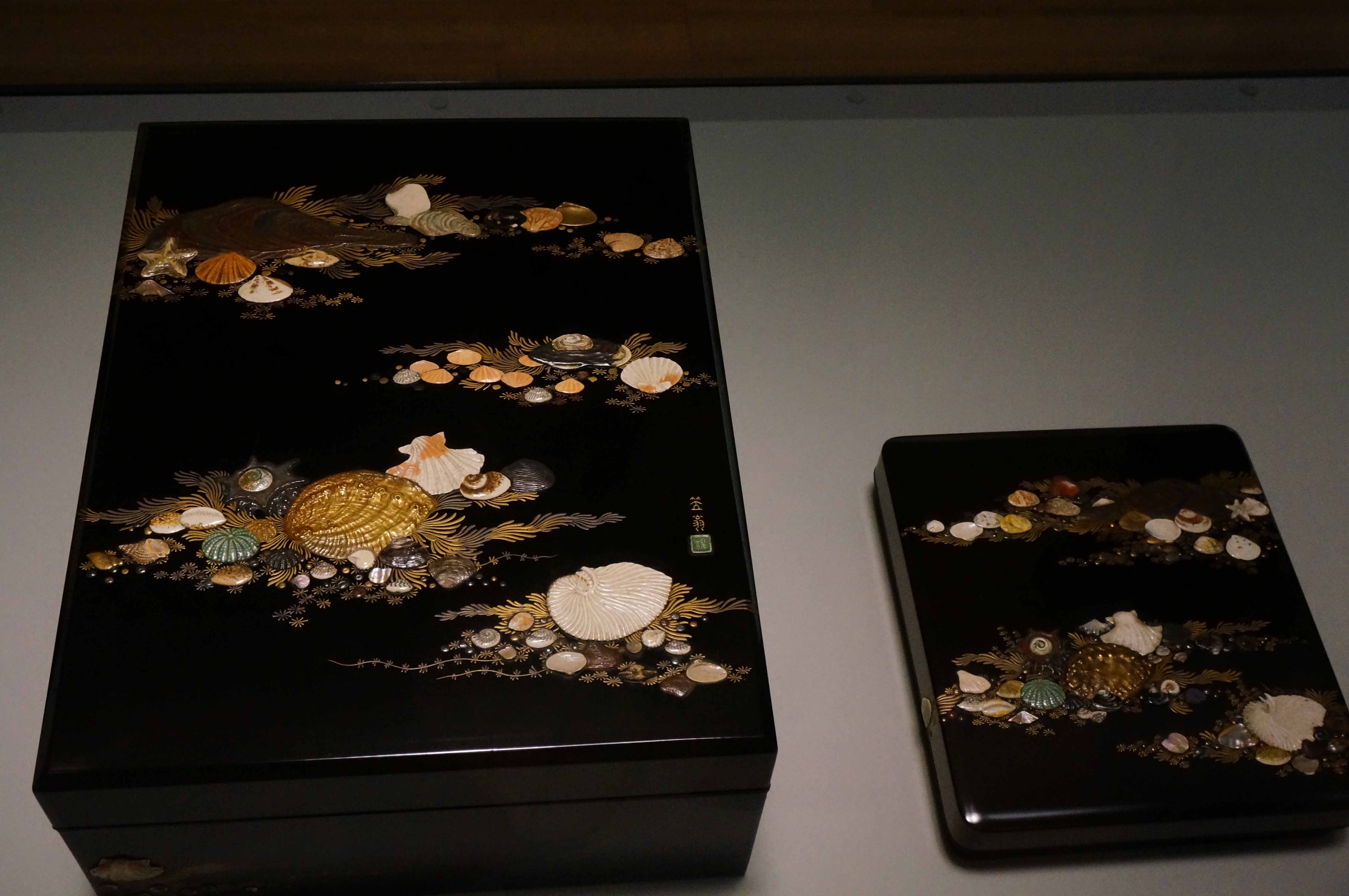 Writing box and stationary box with sea shell design in maki-e. 18th century, Edo period, Suntory Museum of Art